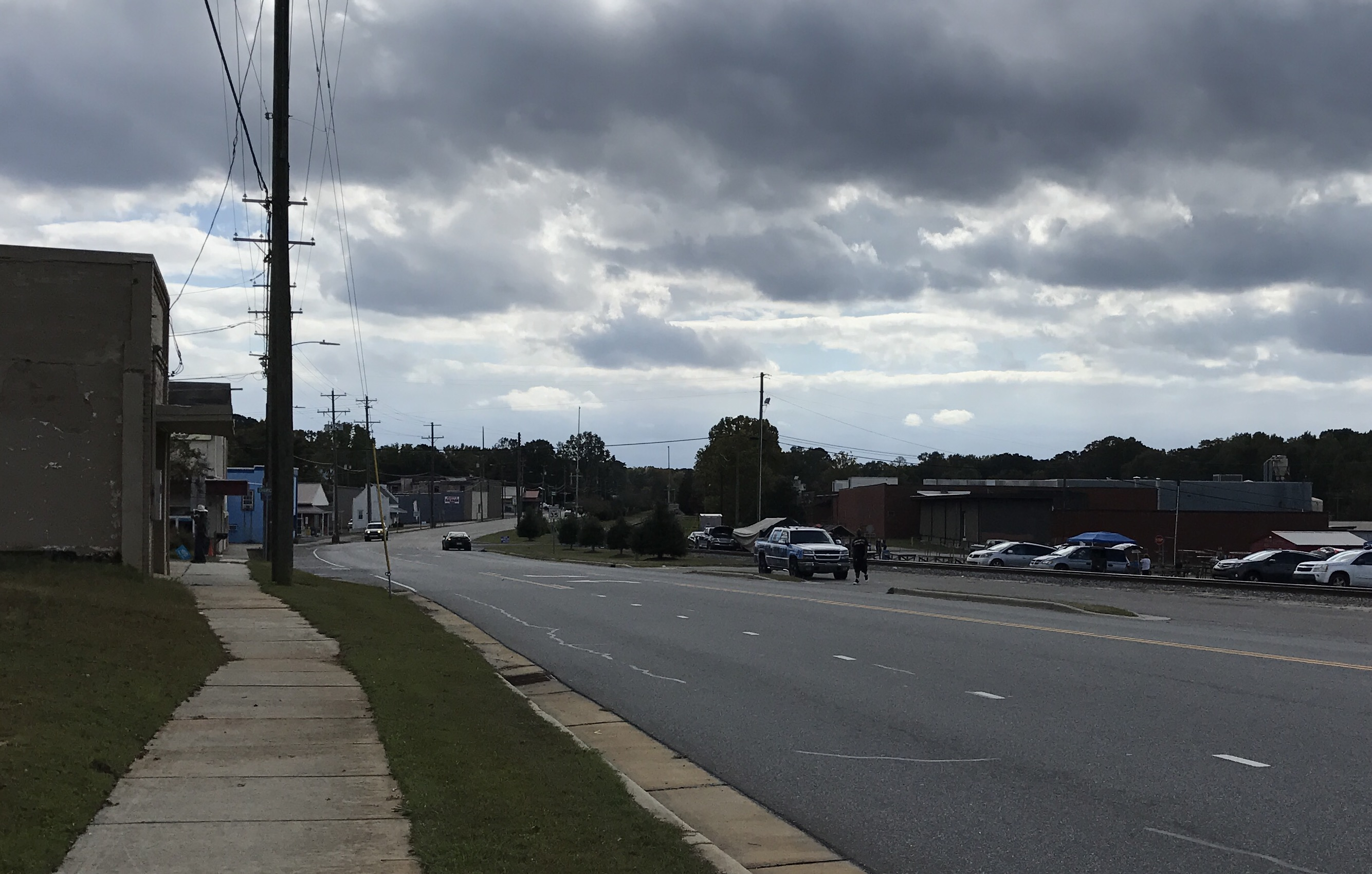 Biscoe straddling US 220